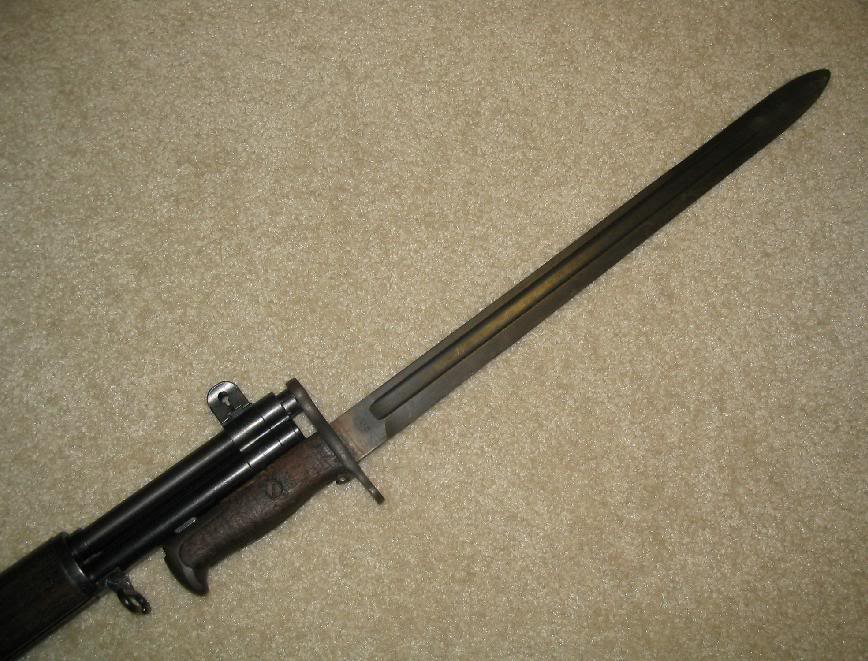 The M1942 Bayonet